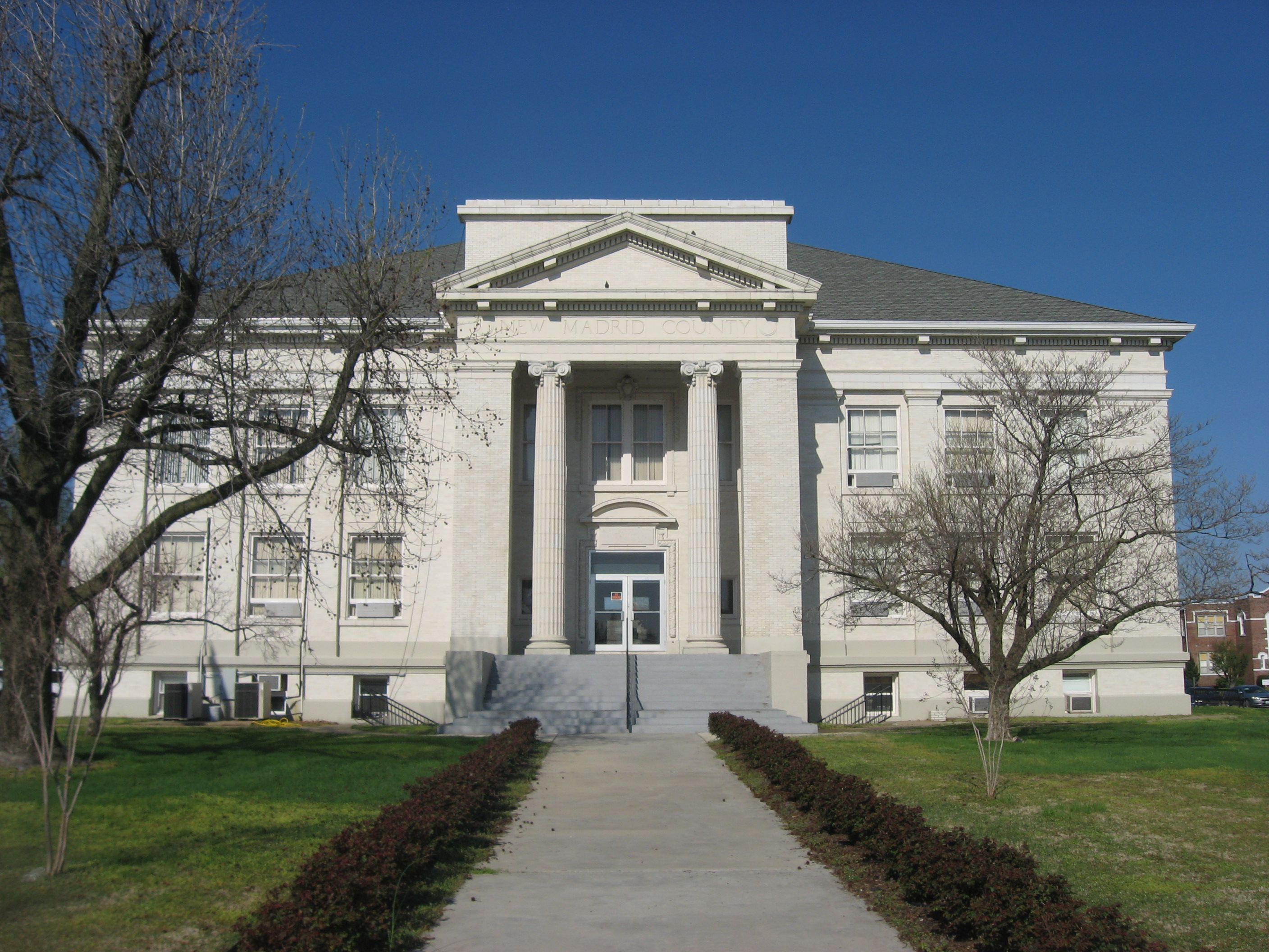 Front of the New Madrid County Courthouse, located at 450 Main Street in New Madrid, Missouri, United States. It was built in 1919.